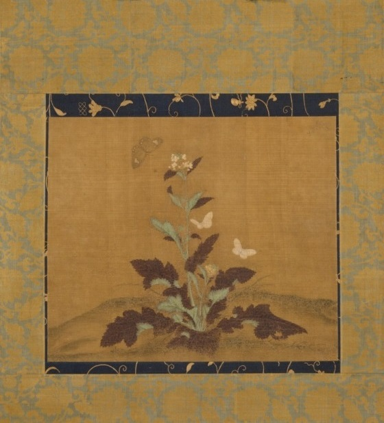 Hanging scroll of mustard plant and butterflies from the early or middle Ming dynasty.